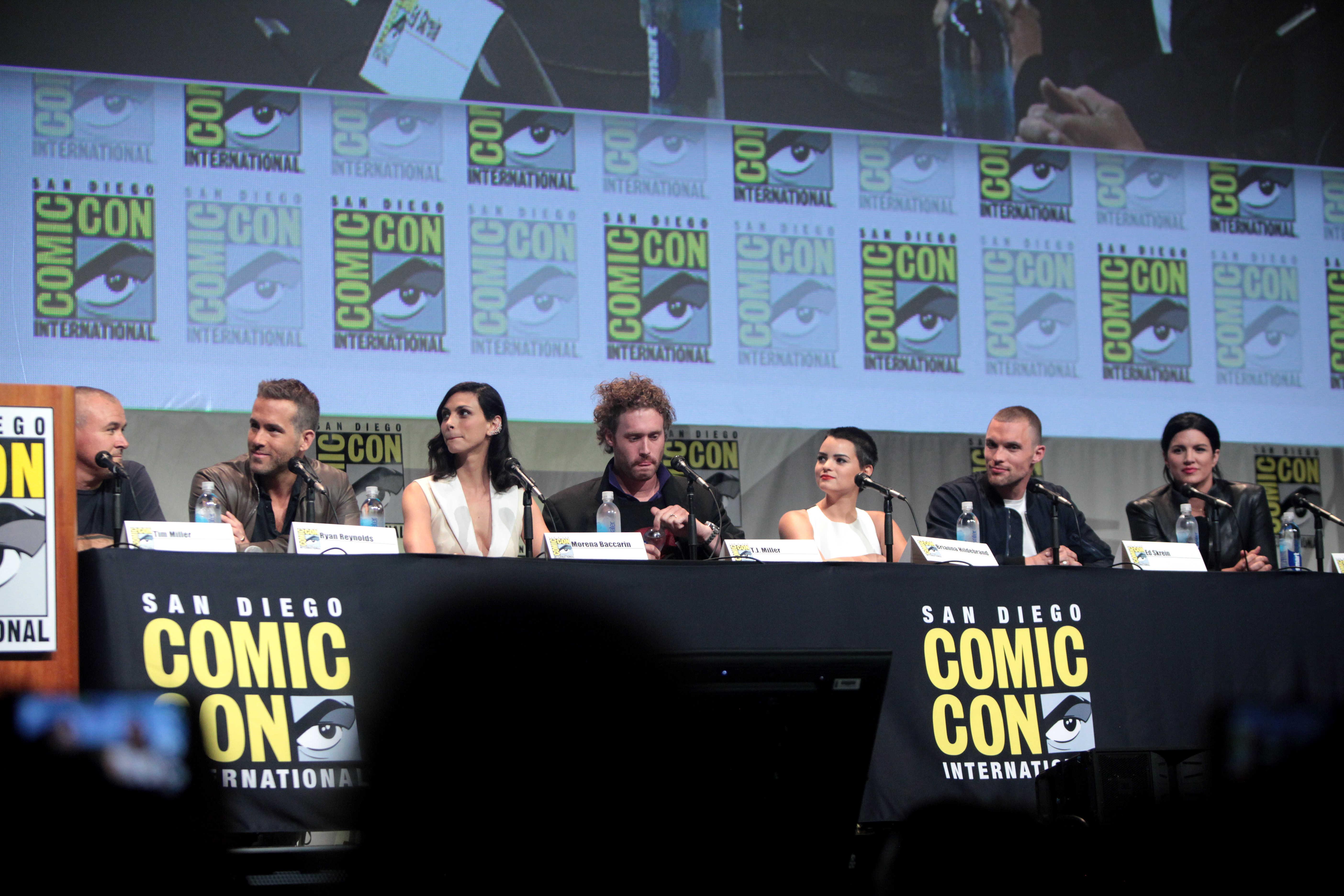 Tim Miller, Ryan Reynolds, Morena Baccarin, T.J. Miller, Brianna Hildebrand, Ed Skrein and Gina Carano speaking at the 2015 San Diego Comic-Con International, for Deadpool, at the San Diego Convention Center in San Diego, California.